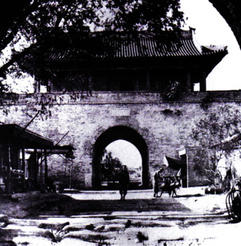 Youanmen, Beijing